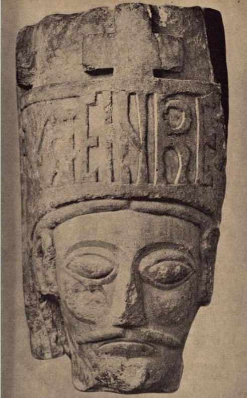 Head of King Eystein I Magnusson of Norway, found at Munkeliv Abbey. Text: "EYSTEIN REX". Dated to "somewhat before the middle of the 1100s" (NBL).